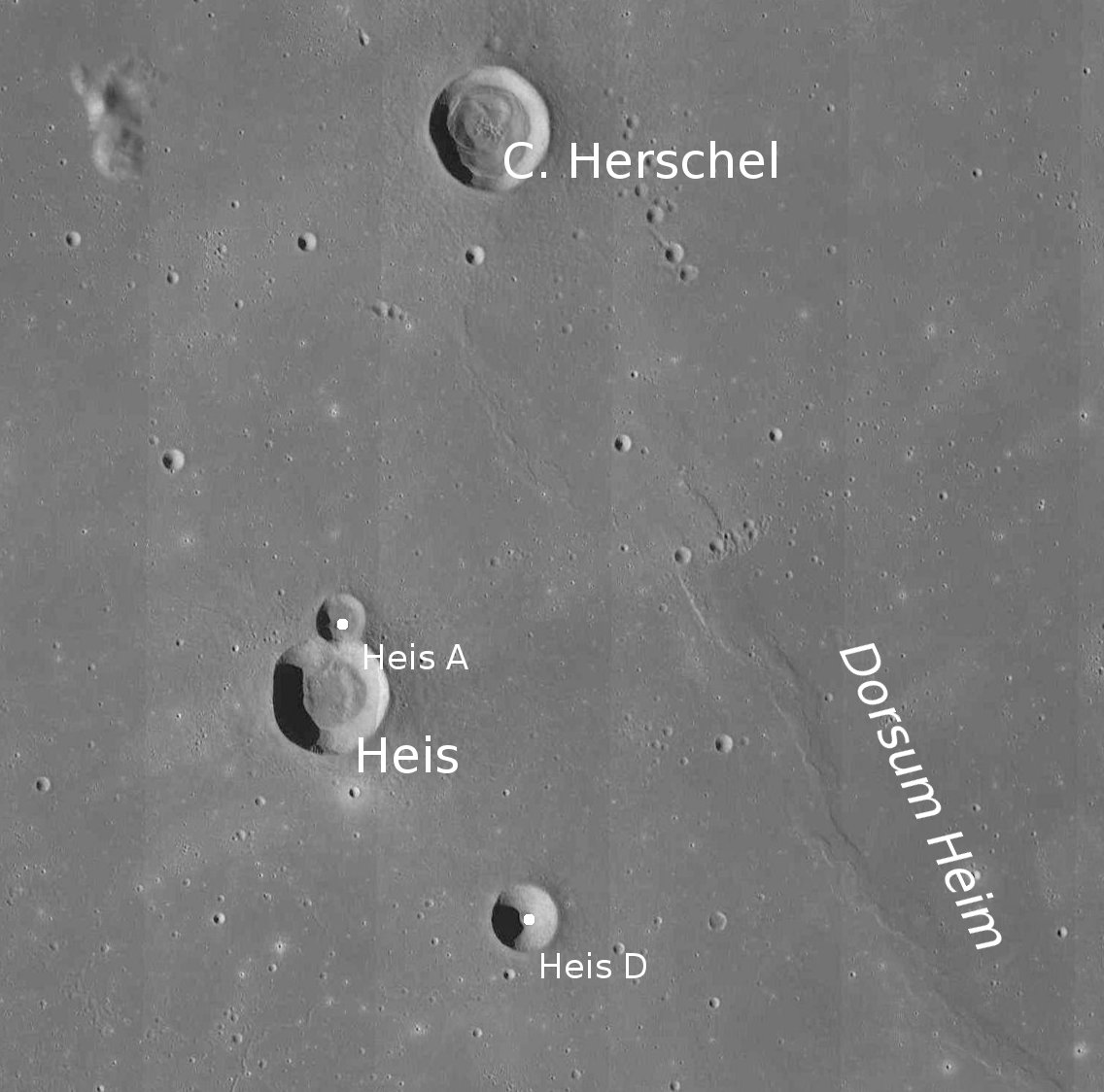 Craters Heis and C. Herschel with Dorsum Heim (detail of LRO - WAC global moon mosaic; Mercator projection)